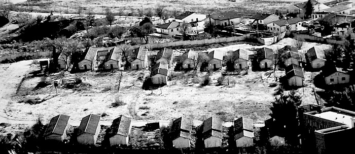 78 Camp of Sulmona, Abruzzo, Italy